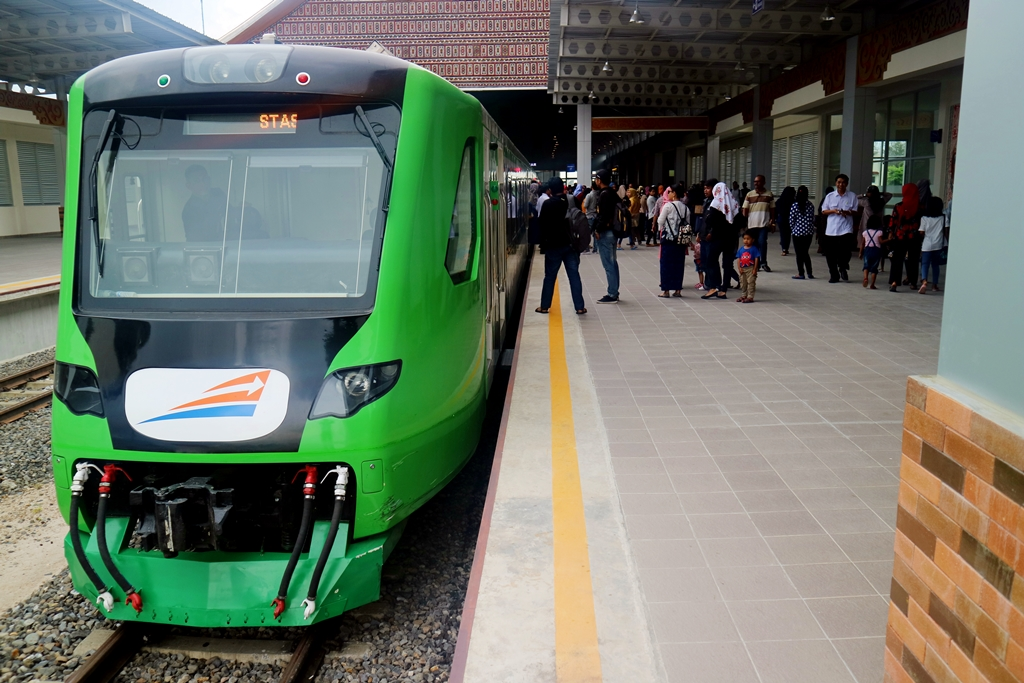 A train arriving at Minangkabau International Airport Station